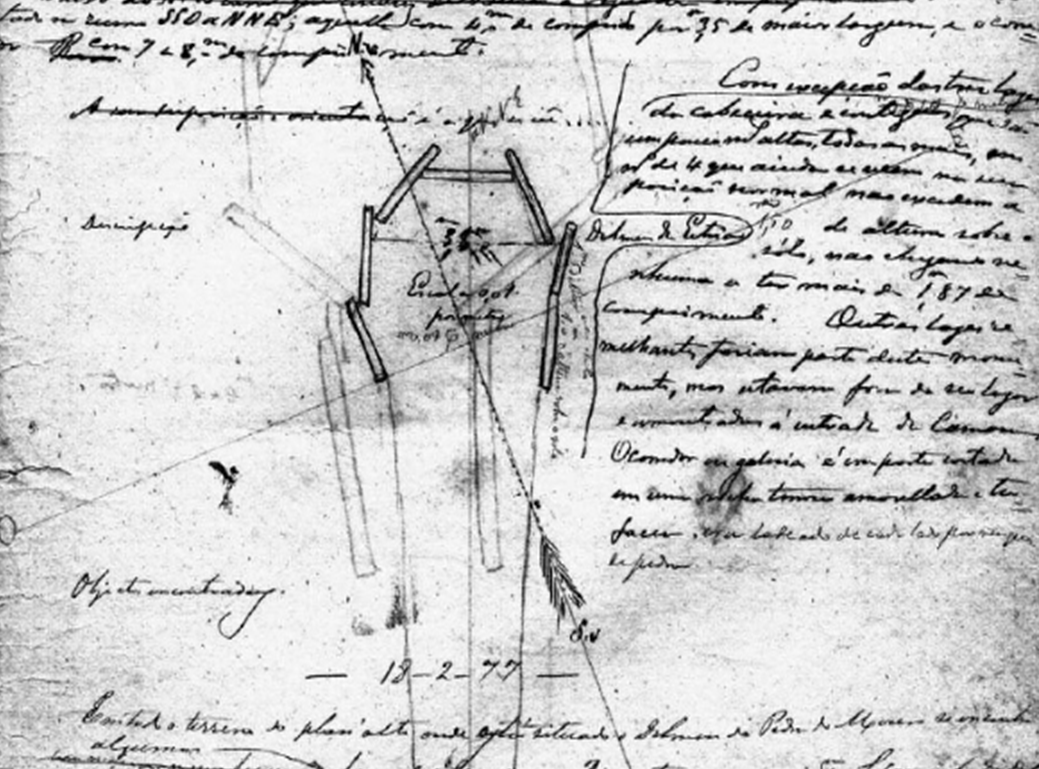 Drawing by archaeologist Carlos Ribeiro of the Anta da Estria, found near Queluz in Portugal. First published in 1880.